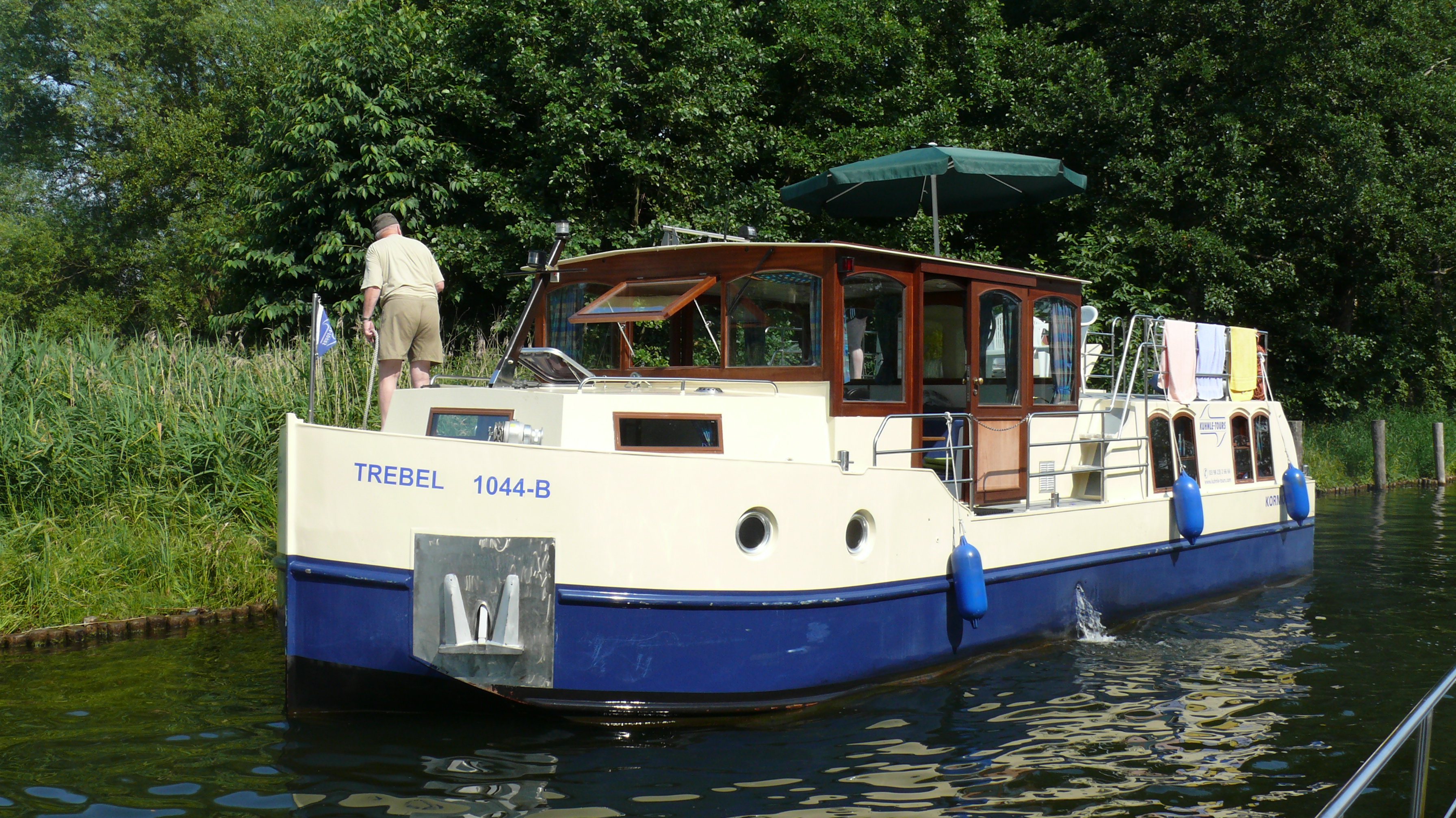 Turistic hausboat model Kormoran renting by Kuhnle-Tour company (Germany)